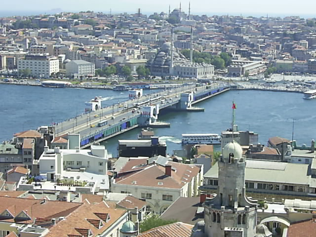 View of Istanbul from the Galata Tower